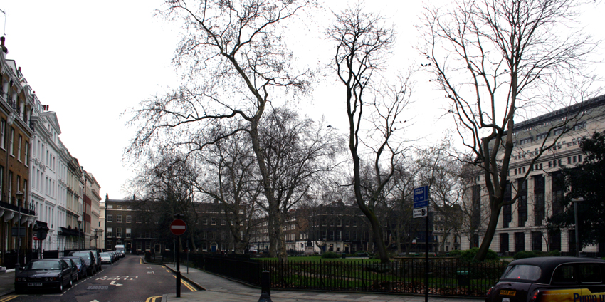 Bloomsbury Square, London.